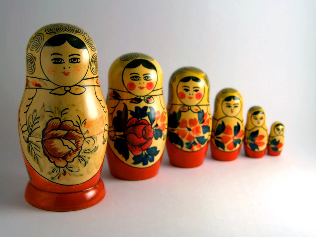 Matryoshka dolls. First quick test of DIY light box.